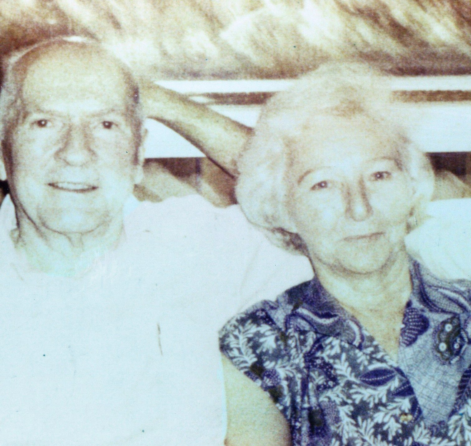 Robert A. Heinlein, with Ginny Heinlein (Retouched from a GFDL'd photo provided by User:Hayford_Peirce User:Hayford Peirce)